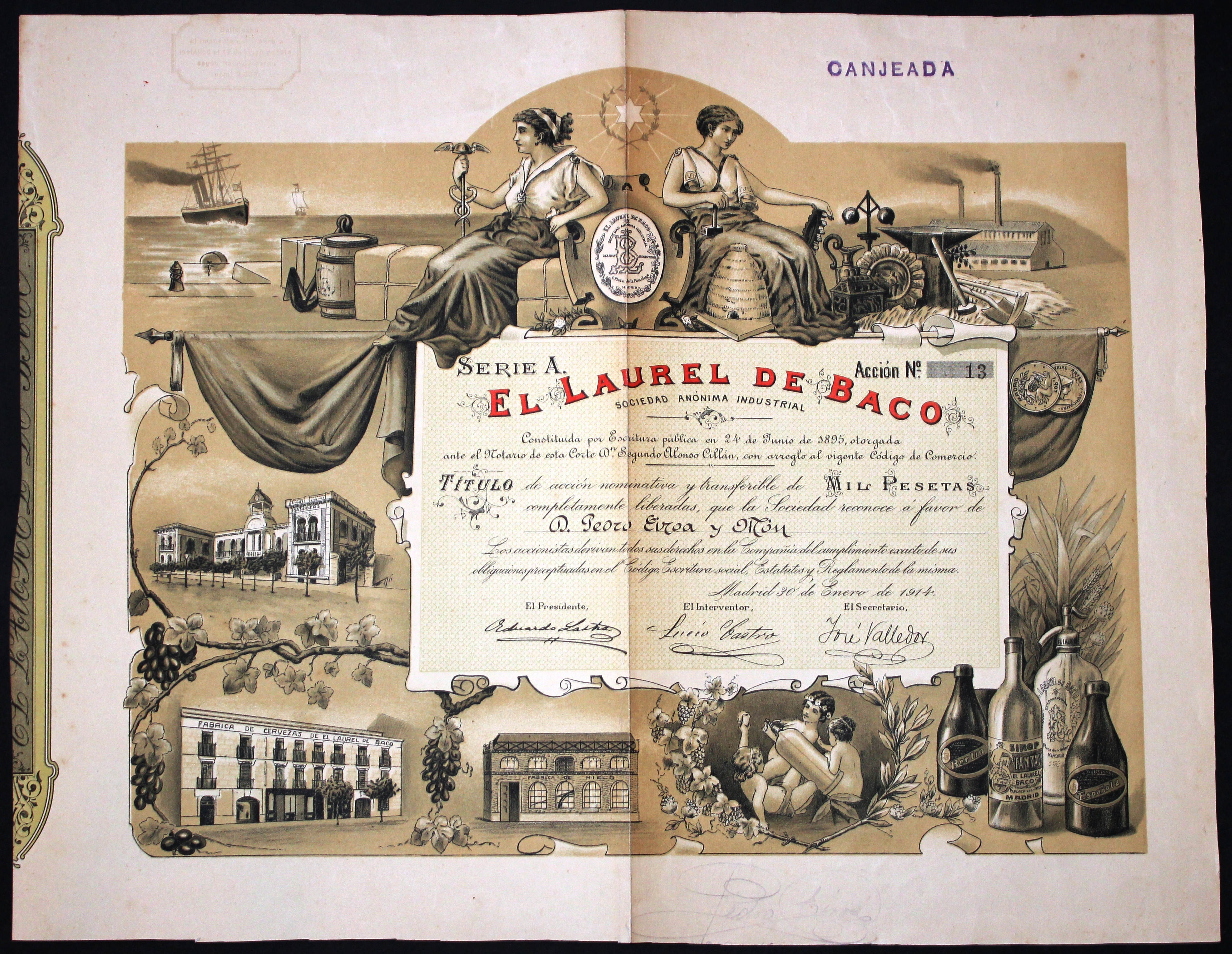 Share of the company El Laurel de Baco, issued 30. January 1914